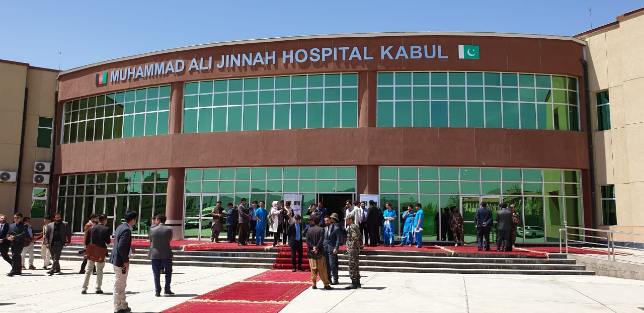 Image is taken from the front side of the Hospital.